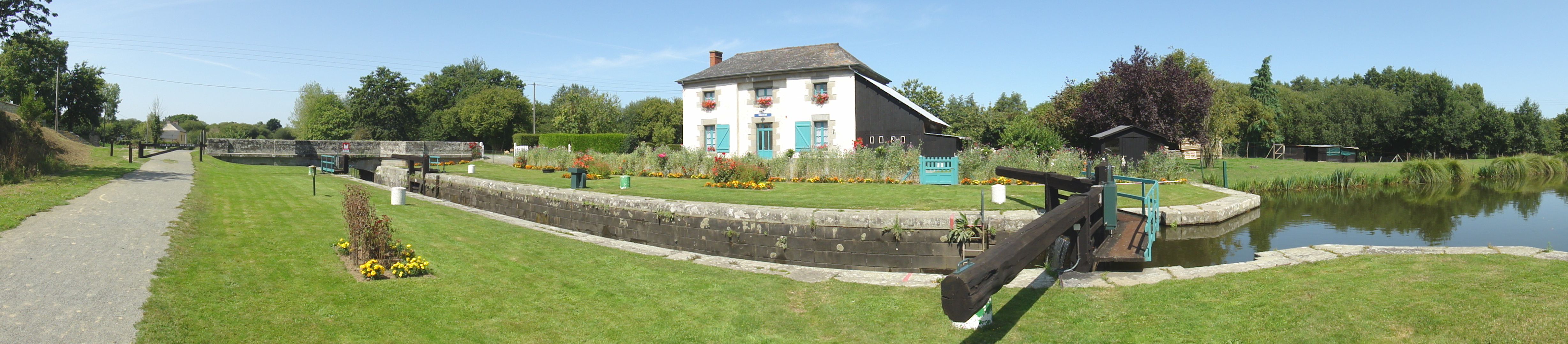 Ecluse la Moucherie du Canal d'ille-et-Rance